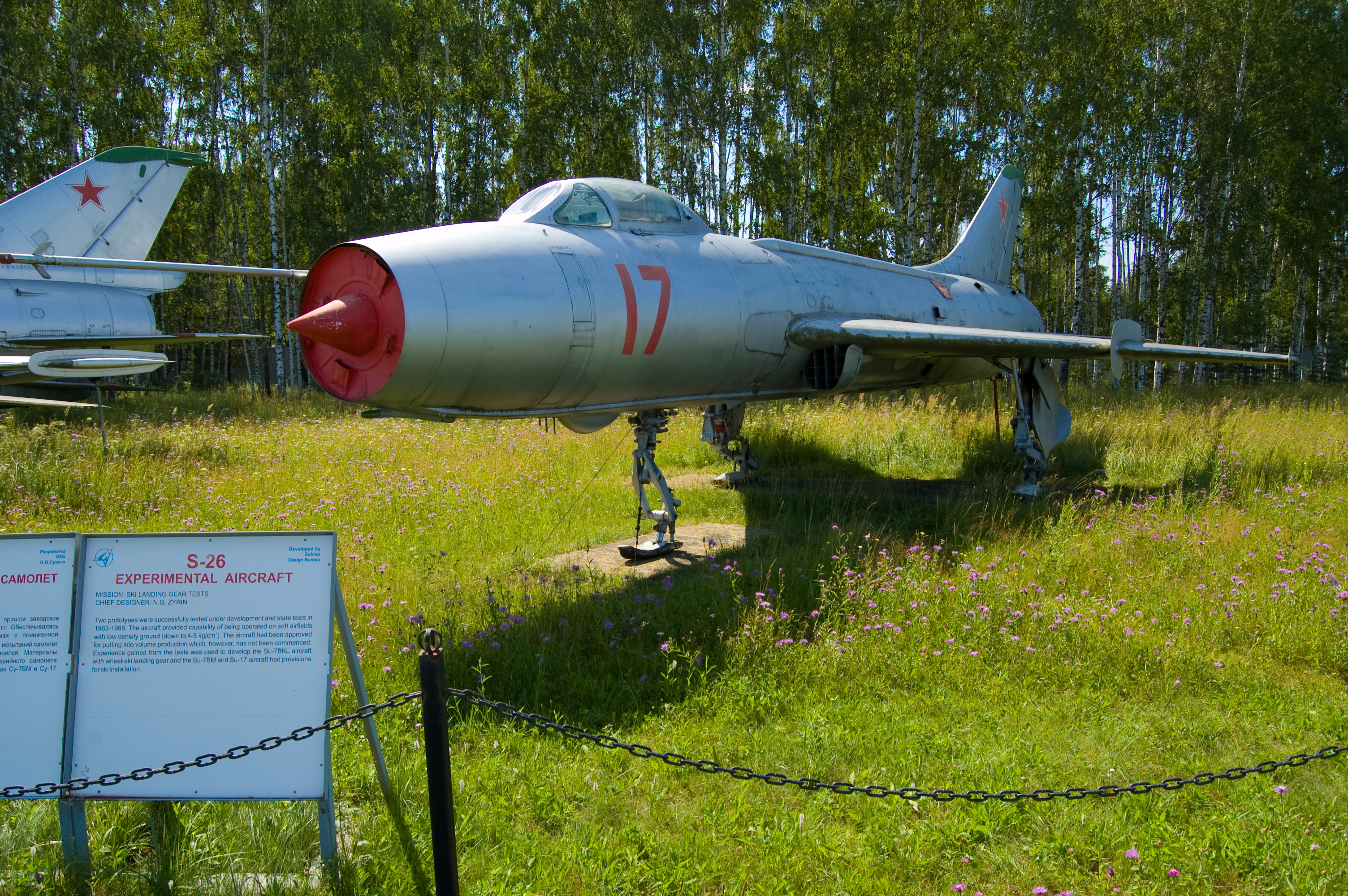 An experimental aircraft with a ski landing gear.